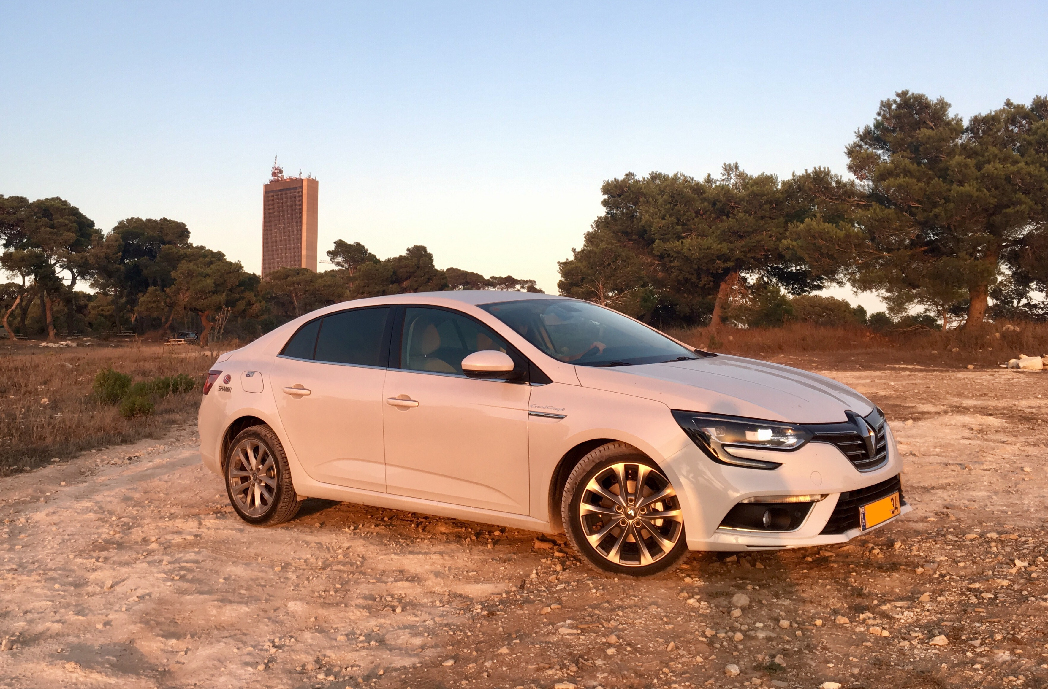 Megane